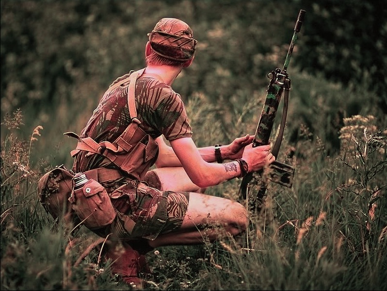 A modern re-enactor, Stefan Melander, simulates a Rhodesian Light Infantry soldier from 1977, wearing appropriate uniform and carrying appropriate gear. Photograph taken by Samu Hupli.